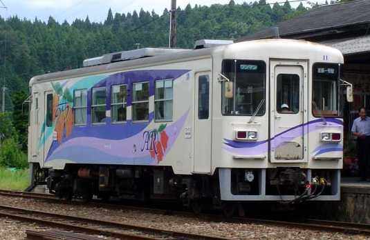 Akechi Railway Akechi 10 Series train.